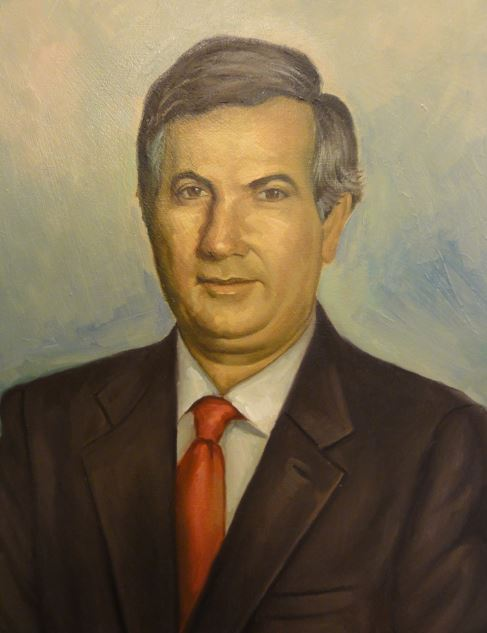 22-DSC00512X - Jose G. Dapena Thompson (Mayor of Ponce, Puerto Rico)